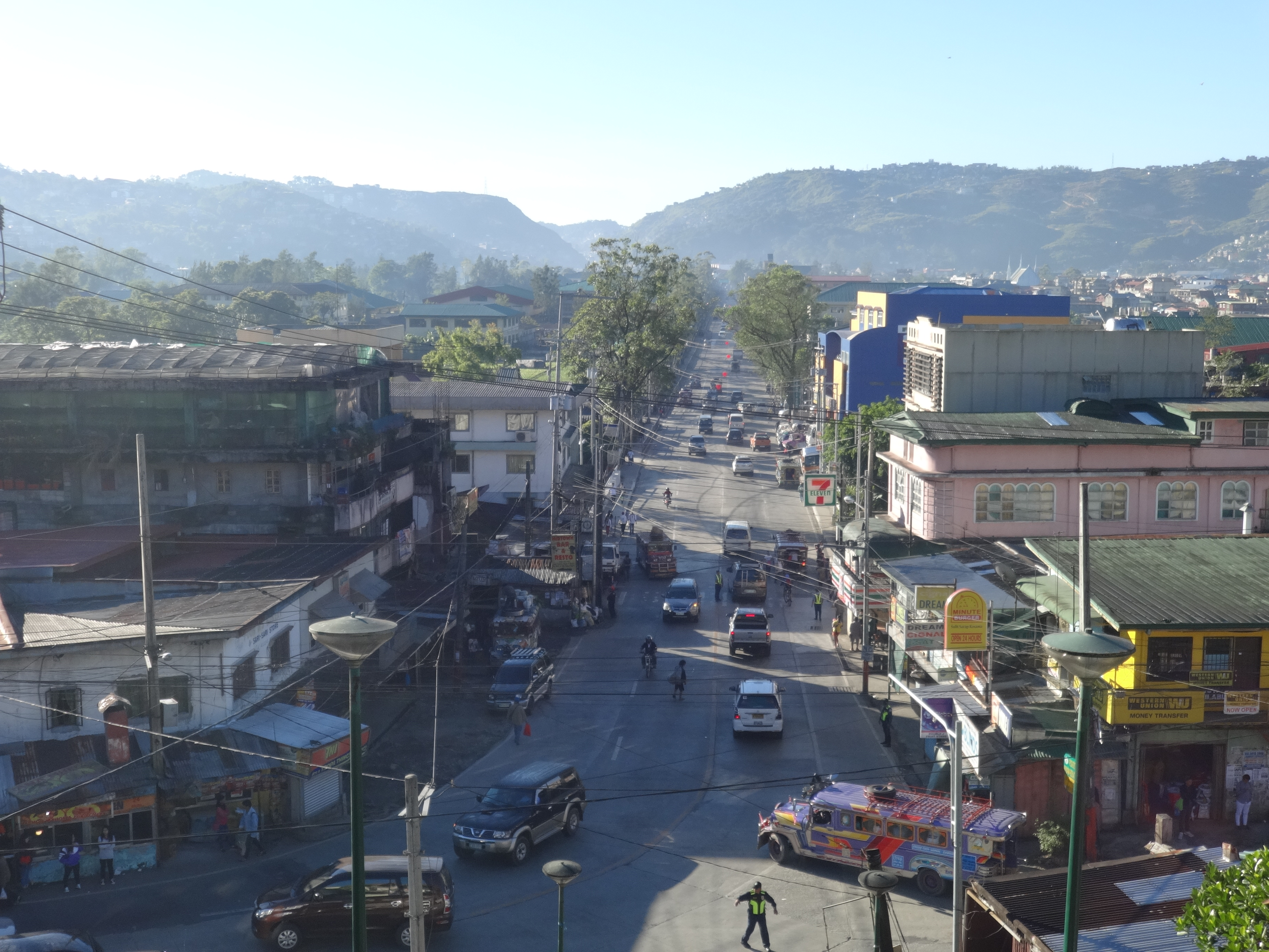 View of La Trinidad town proper from Benguet Provincial Capitol in La Trinidad, Benguet